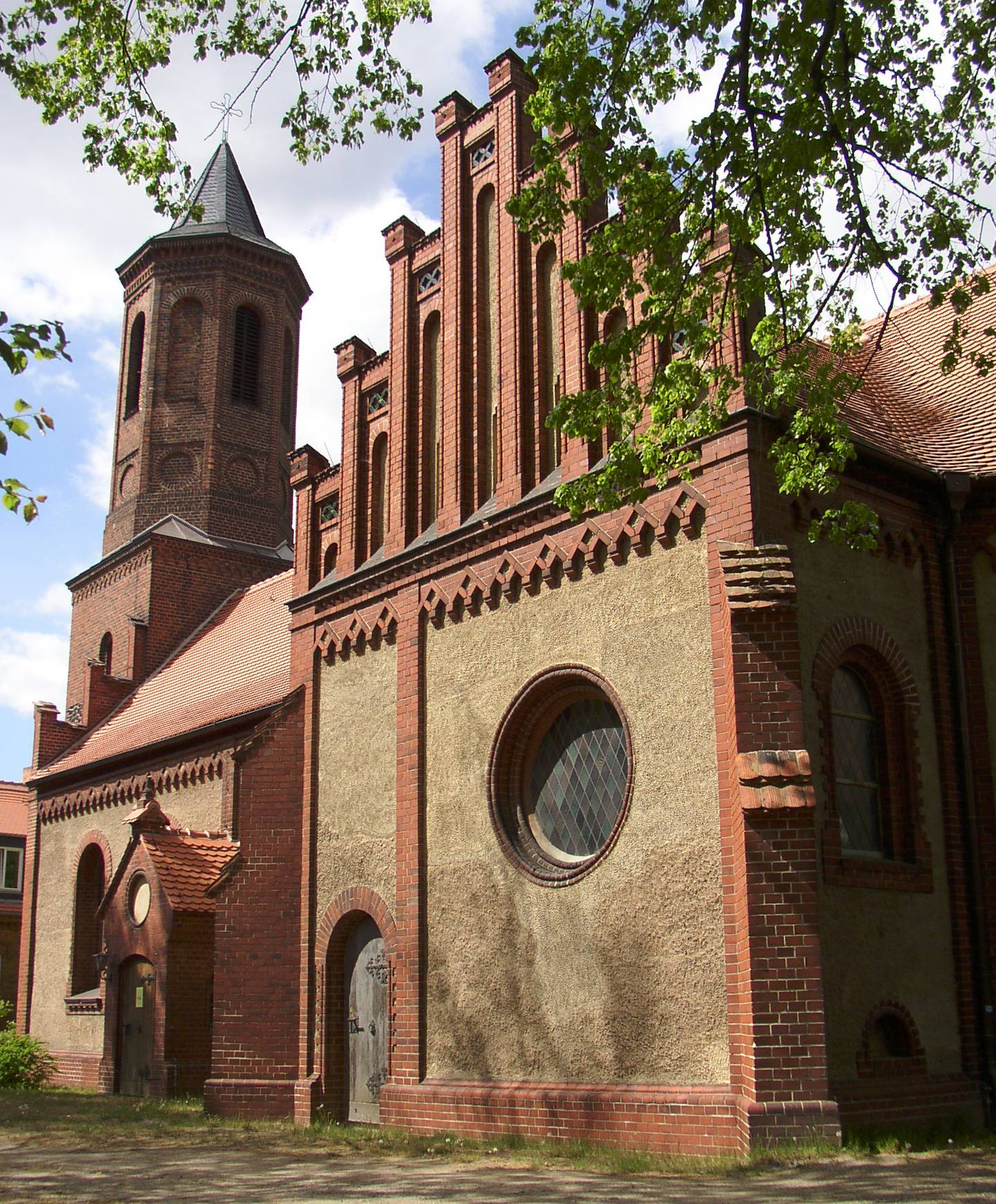 Church in Fürstlich Drehna in Brandenburg, Germany